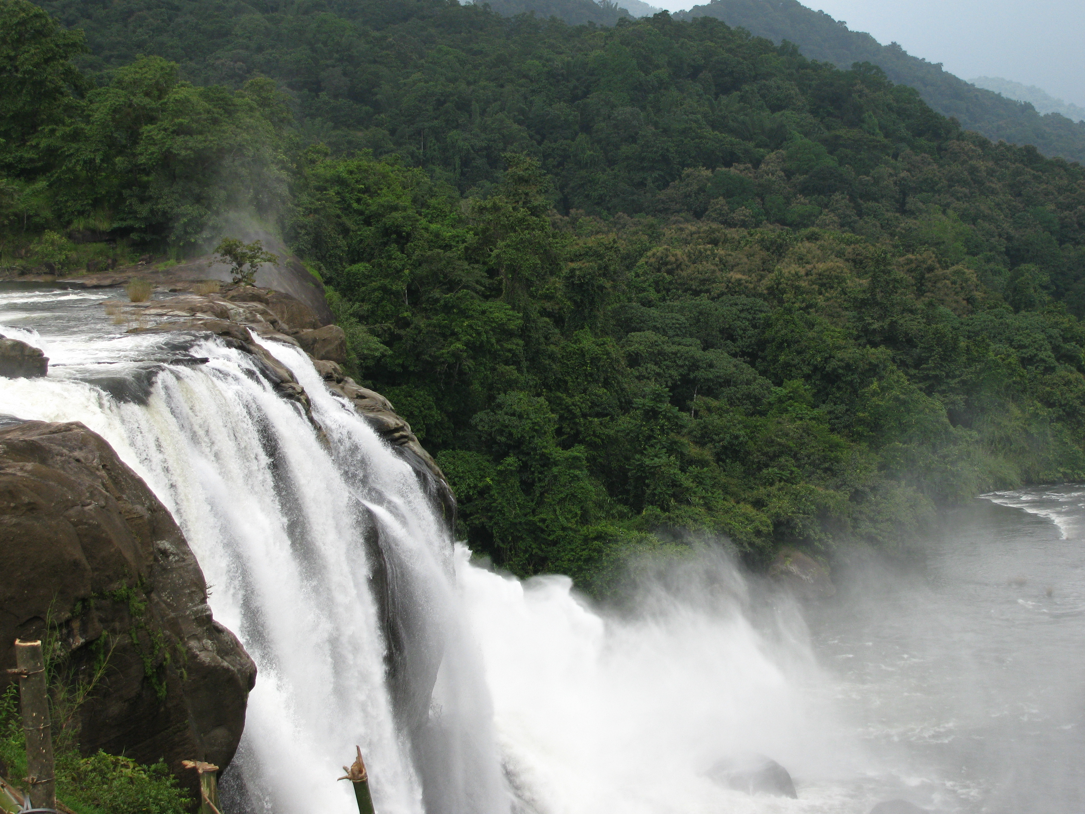 Athirapally waterfalls is situated in Kerala.